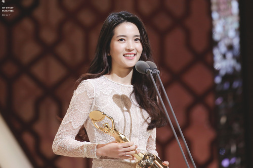 Kim Tae-ri winning the Blue Dragon Award as Best New Actress 2016.